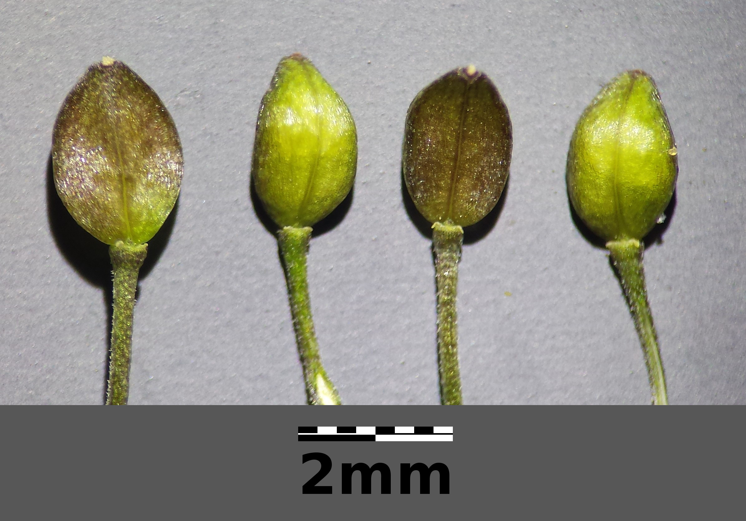 Siliques Taxonym: Hornungia petraea ss Fischer et al. EfÖLS 2008 ISBN 978-3-85474-187-9 Location: Hundsheimer Berge, district Bruck an der Leitha, Lower Austria - ca. 300 m a.s.l. Habitat: rock steppe